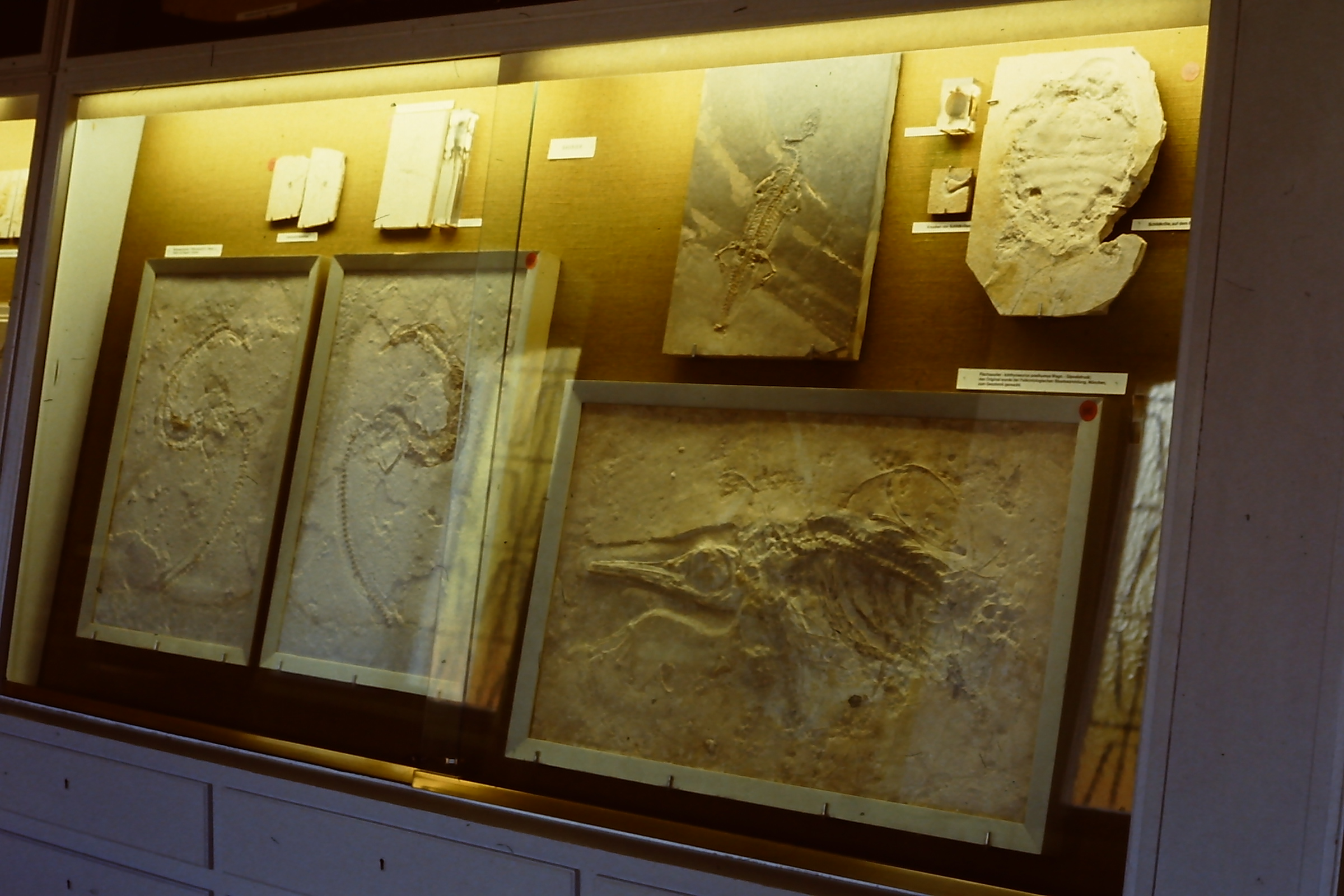 Showcase with fossils of reptiles in the current closed Maxberg Museum, Mörnsheim, Germany